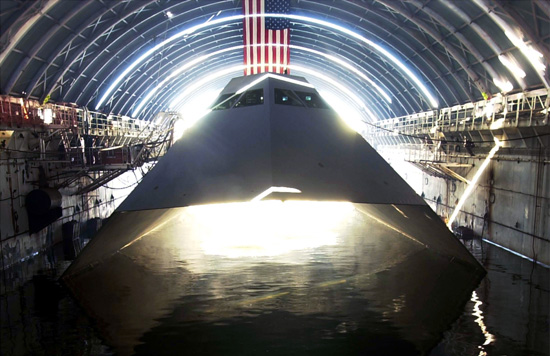 The Navy's innovation testing ship, the stealthy Sea Shadow (IX 529), enters drydock after a cruise in San Diego Bay. The stars and stripes seem to be in a stealth mode of sorts too, appearing to hang backwards. However, our nation's flag is hanging correctly, as the photo was taken from the rear of the drydock.